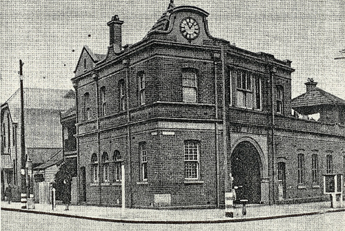 Tram_stop_at_Alexandria_post_office_1940s